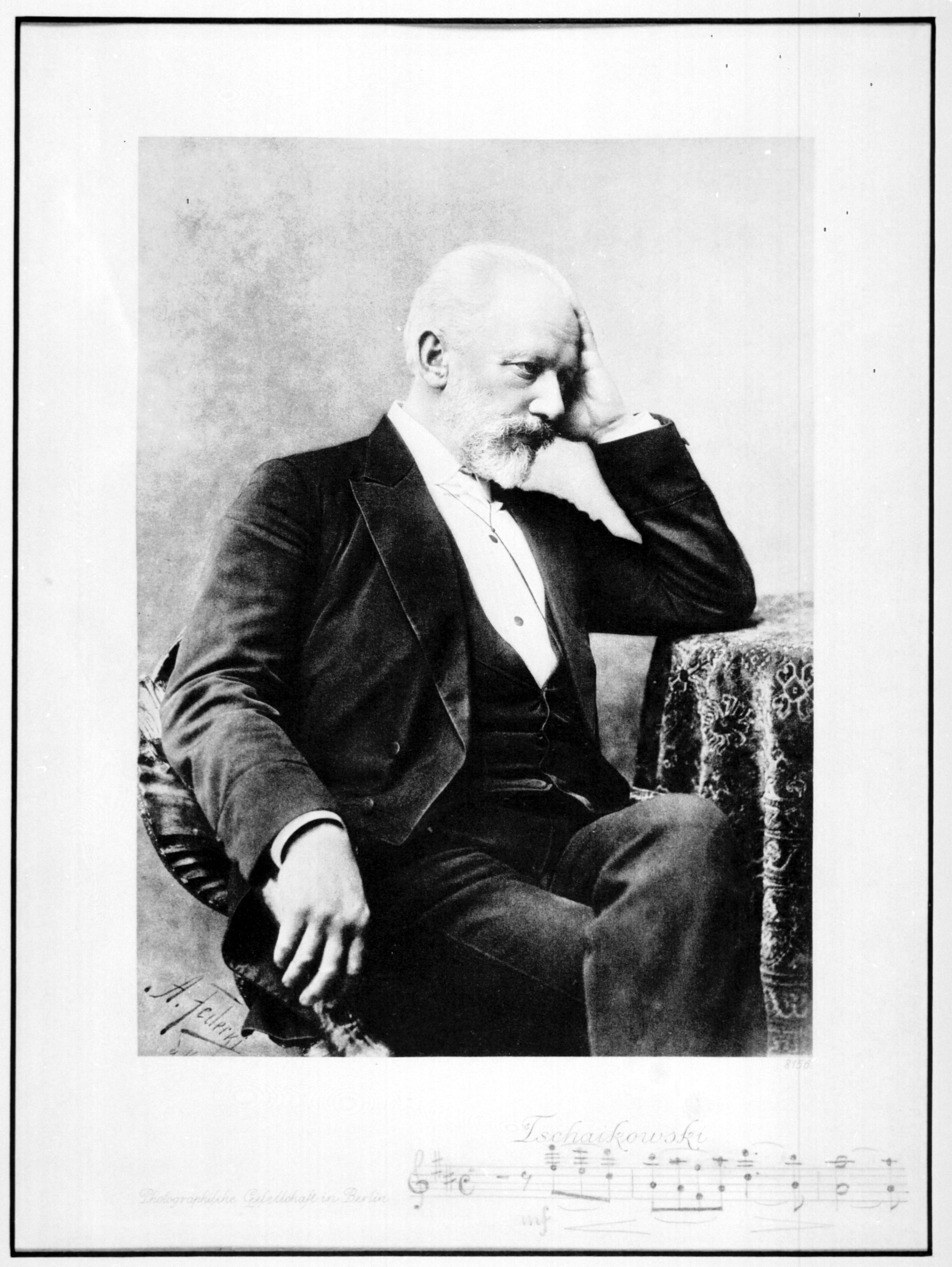 Artist: A. Federki Date/place:Berlin Subject: unknown Medium: photographic positive, B&W Notes: Written under the photo: Photographische Gesellchaft in Berlin Persistent URL: [#//bergenbibliotek.no/digitale-samlinger//engelsk/-intro-eng” Original belongs to the Edvard Grieg Archives at Bergen Public Library] Original reference: EGM0047